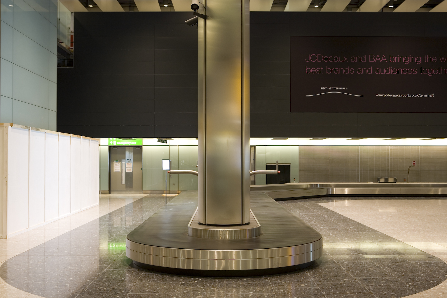 Heathrow Terminal 5 – Baggage Reclaim